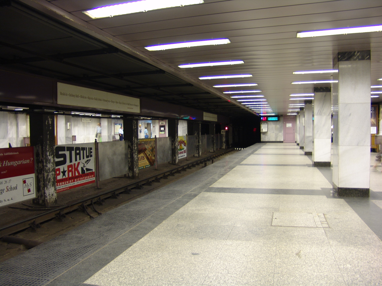 Line 1 (Budapest Metro), Deák Ferenc tér station